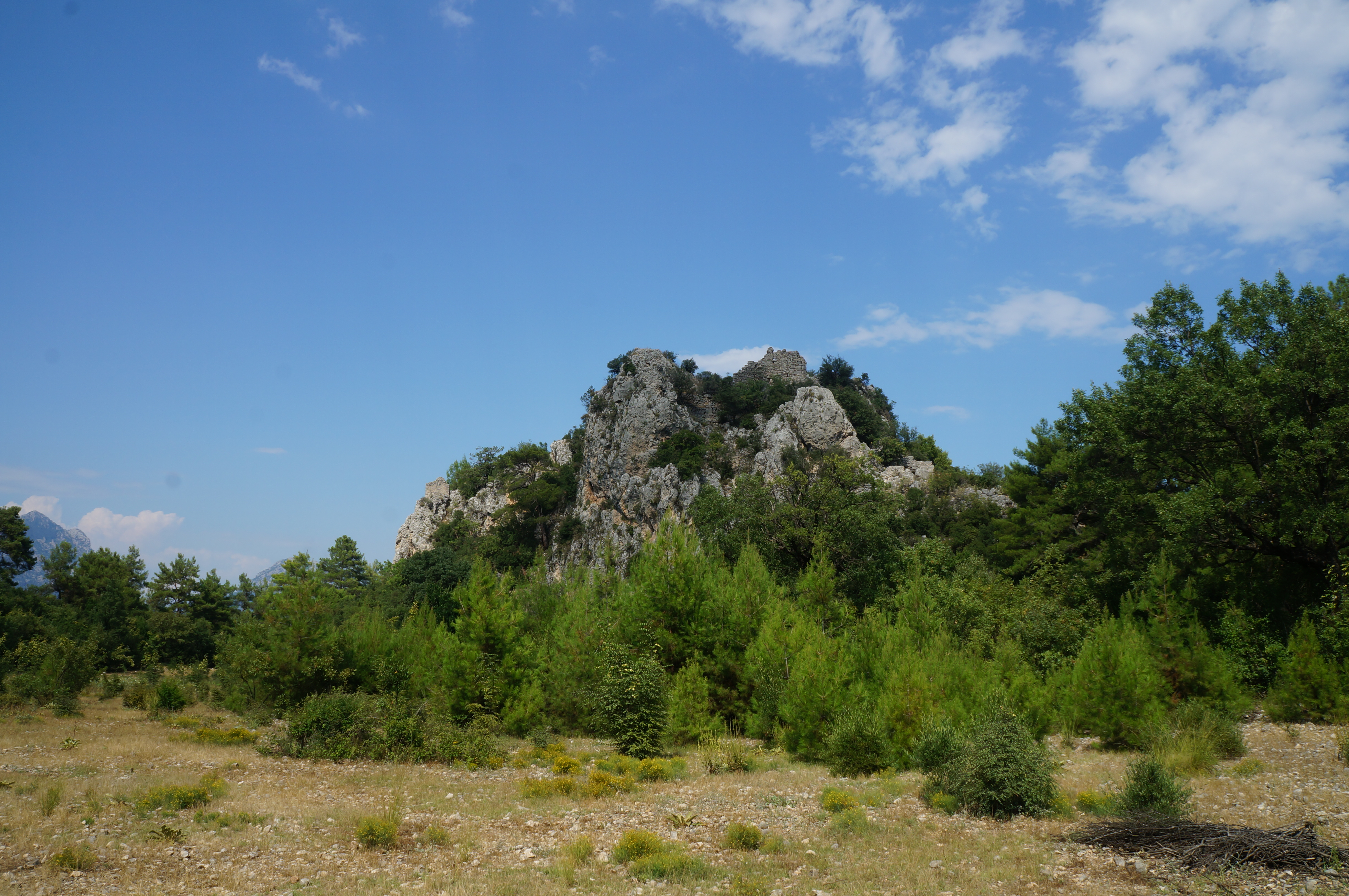 View of the Acropolis of the Ancient City of Trebenna.